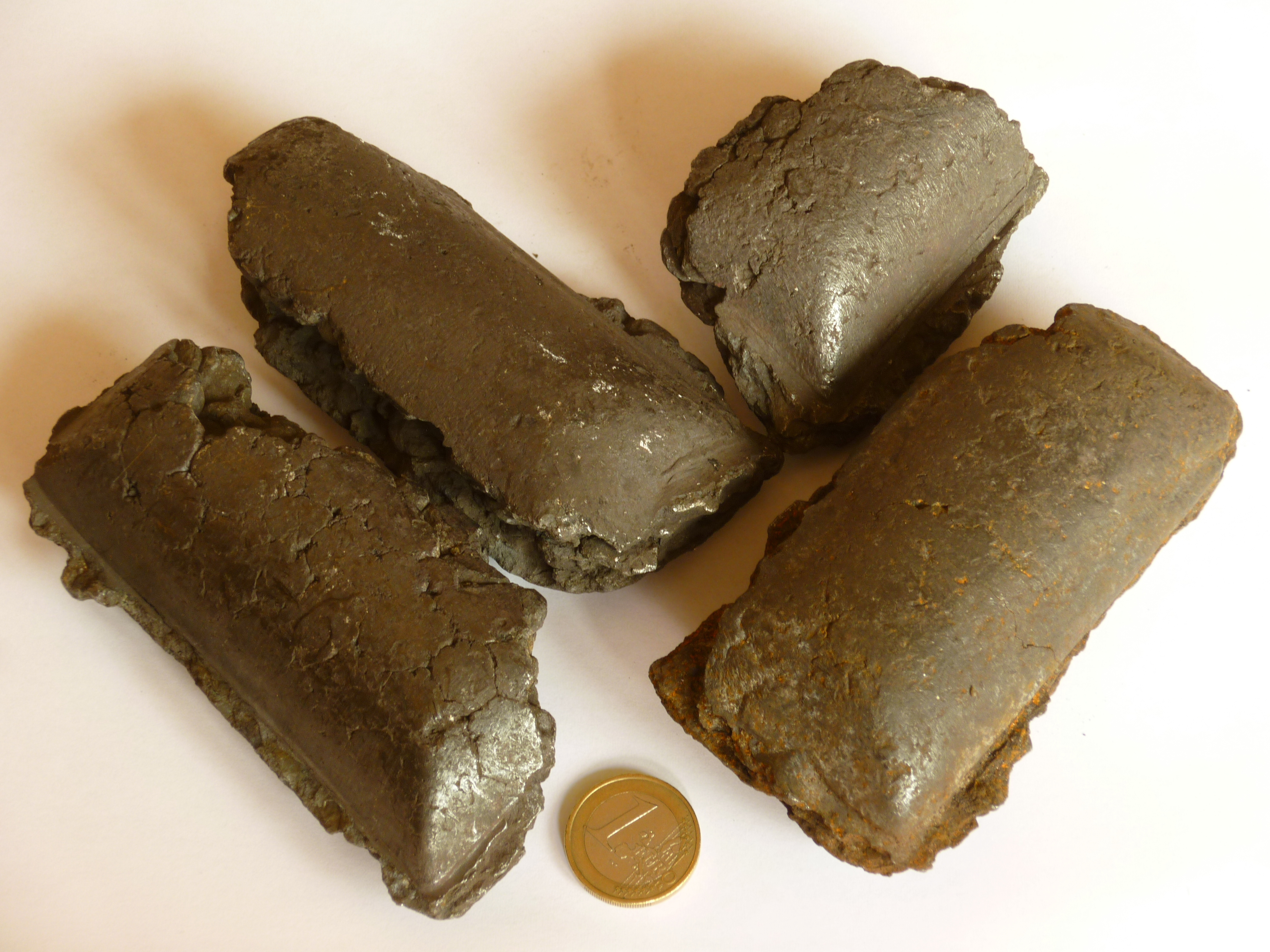 Direct reduced iron as hot-briquetted iron (also named HBI) with a 1 Euro coin to give the scale.